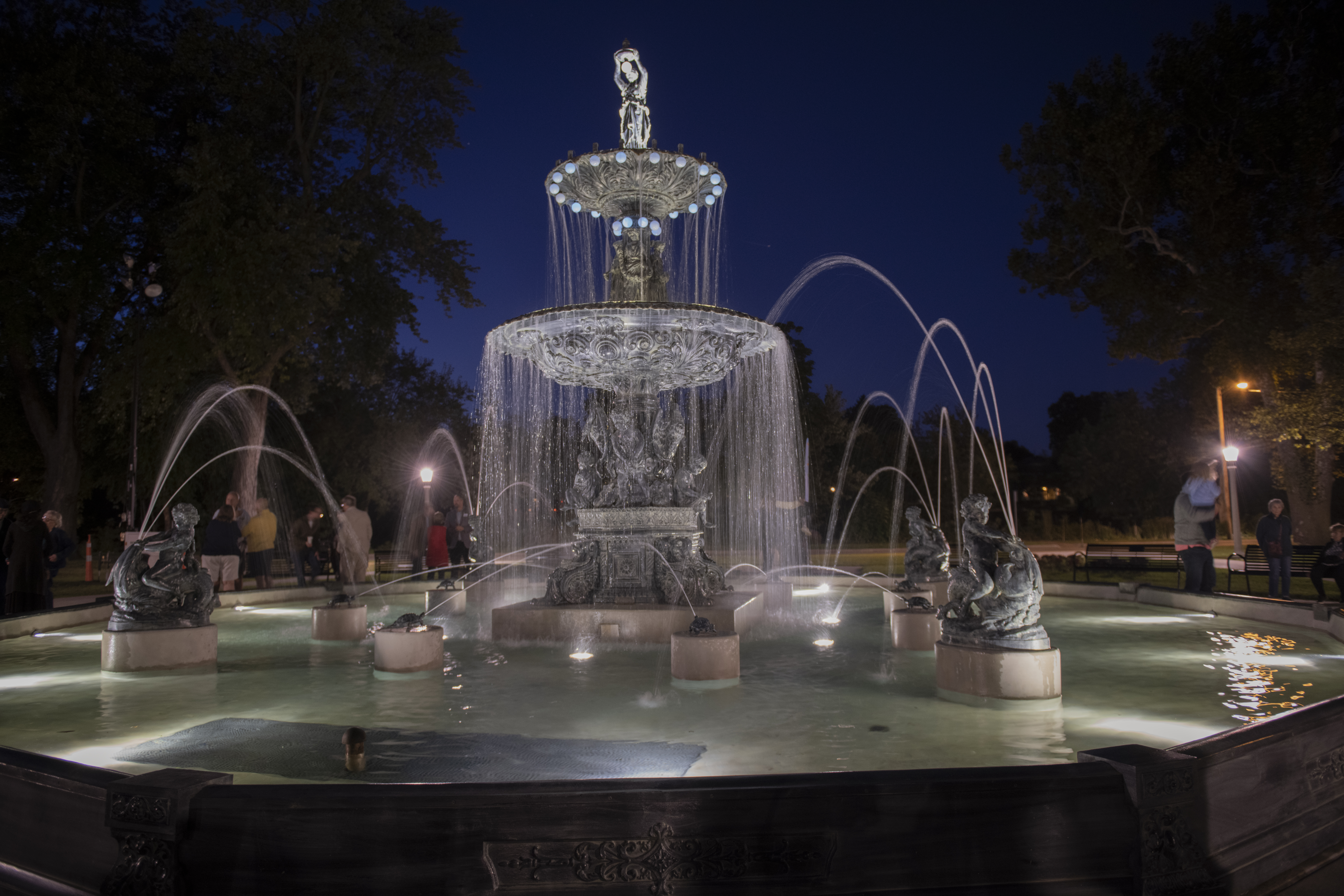 The restored Studebaker Fountain at Leeper Park on opening night of October 7, 2019.